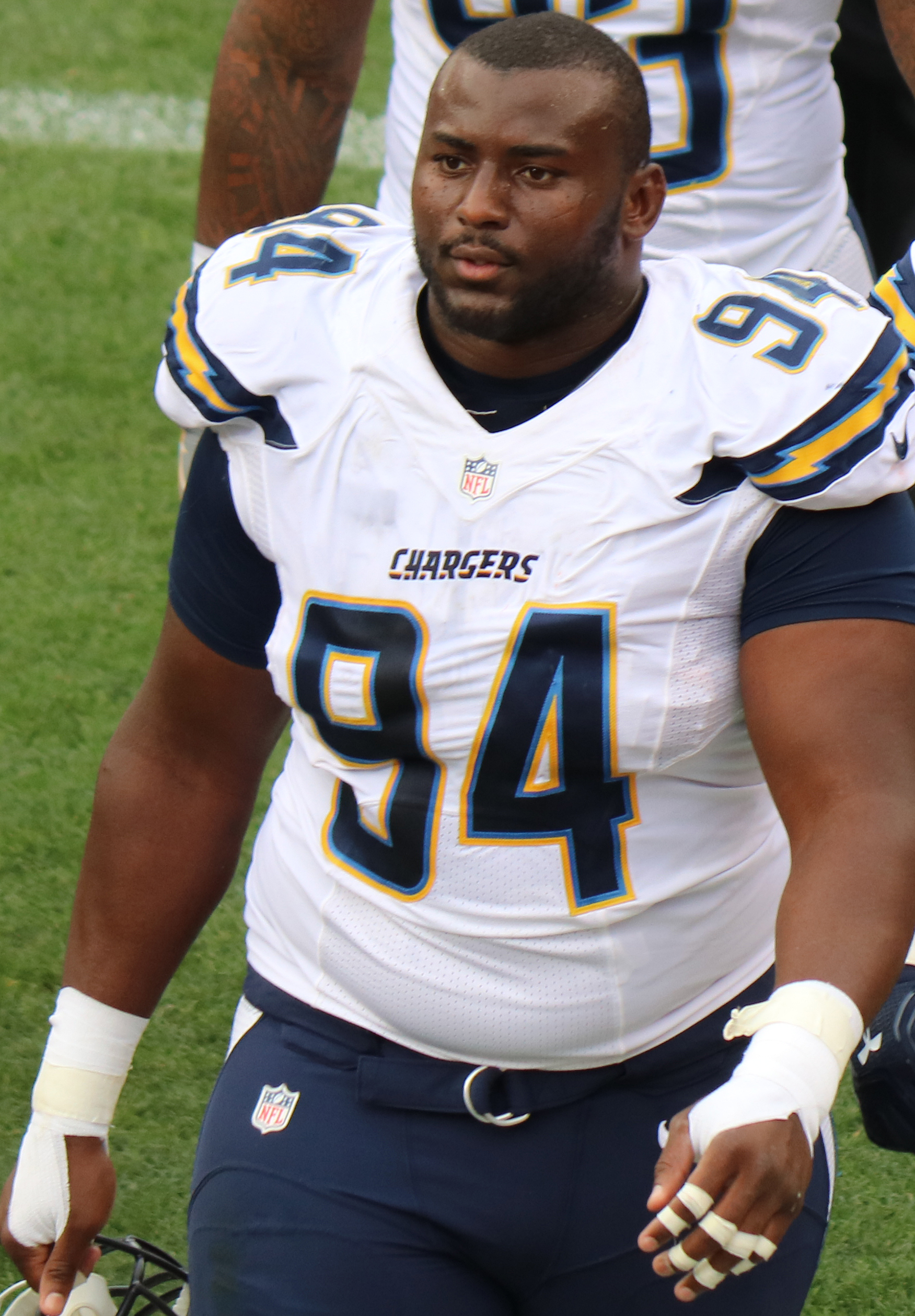 Corey Liuget, a player on the National Football League.